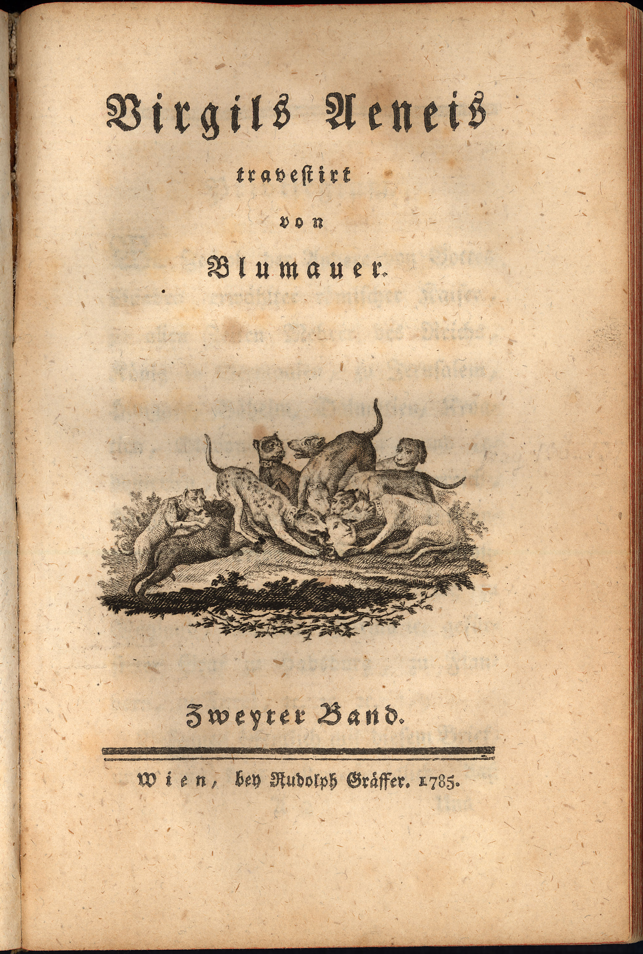 Title page of volume II of Aloys Blumauer’s Virgils Aeneis travestiert (“Travesty of Virgil’s Aeneis”), printed Vienna 1785. First edition.